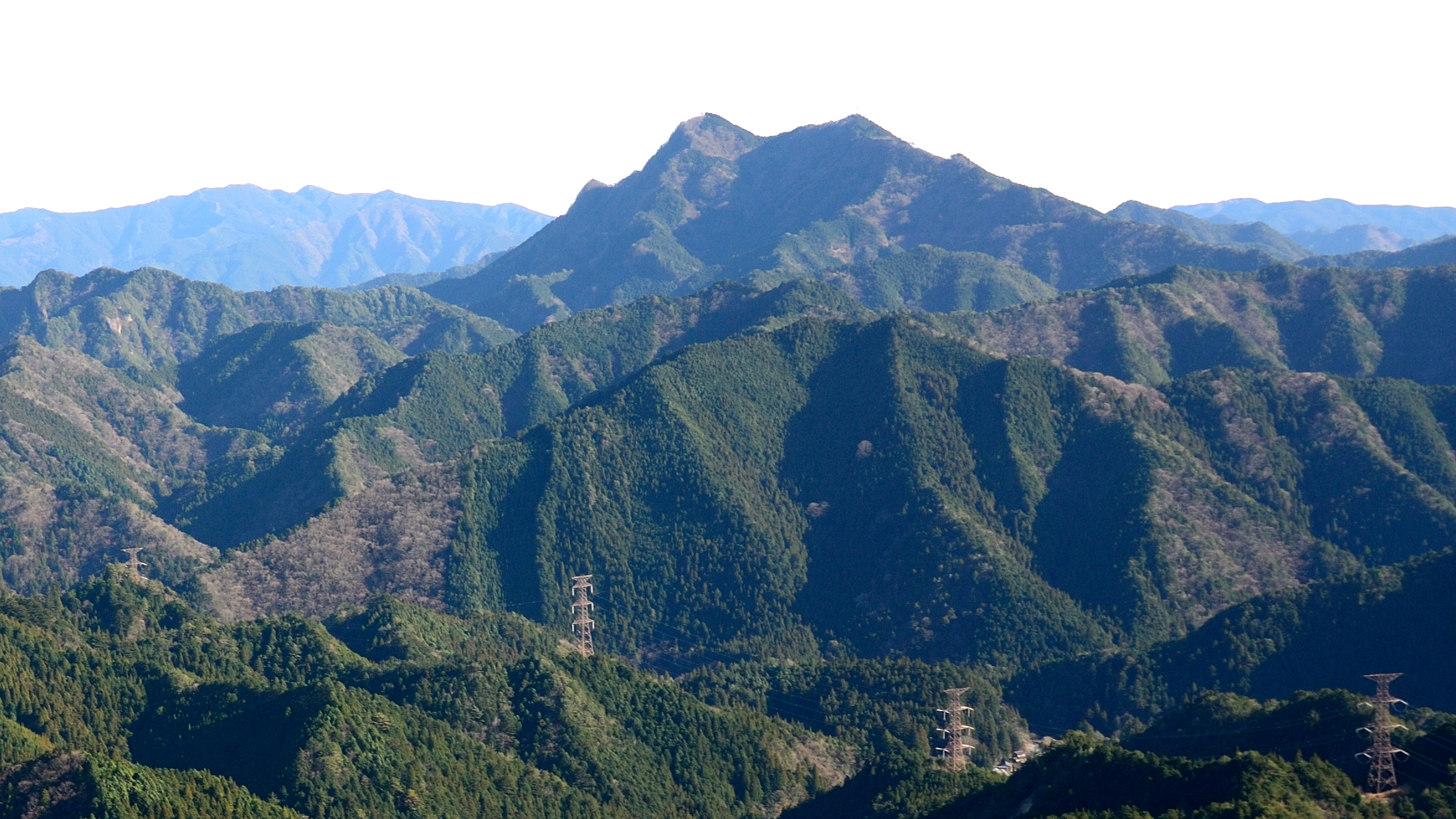 Mount Myojin seen from the northwest. Taken from Mount Iwakoya.